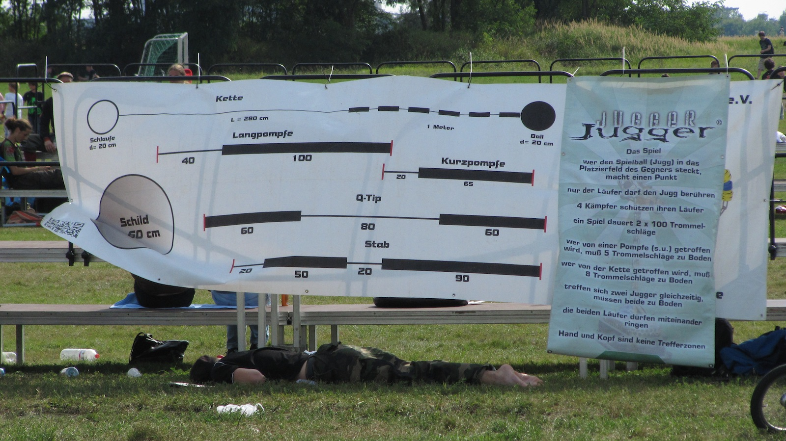 Jugger Rules (german)